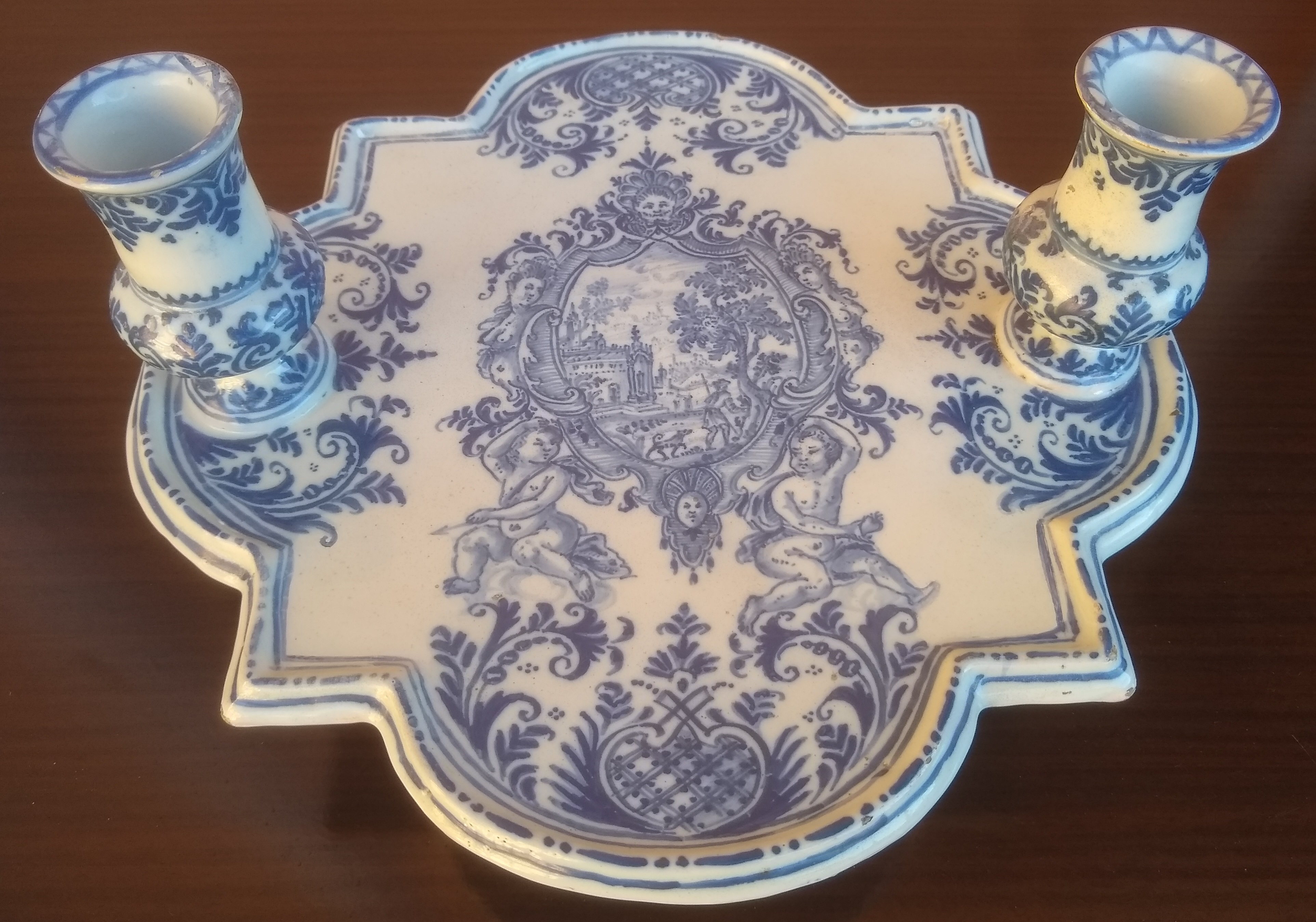 Maiolica stand. Shape: square (side 25.5 cm), each side of the square has a hemicircular lobe; on the 2 sides there are 2 pots which may have been used for flowers or candles. Underside: Circular stand, with central mark “AMC” with intertwined letters; the “AMC” mark is attributed to the Antonio Maria Coppellotti factory. Decoration: gran fuoco (underglaze) firing, monochromatic blue, there is a central frame with 2 female figures and vegetable décor at the sides; 2 putti (chubby male children) underneath, one holding a heart, the second holding an arrow. Inside the central frame, a scene with a church and a hunter with his rifle and dog. The rest of the stand, including the 2 pots, is decorated with arabesques and symmetric geometric-floral patterns. The edge is marked with a periodic pattern made by a line and 2 dots, typical of Lodi ceramics. It is thought to be a wedding present, due to the various symbols of love and marriage, such as the church, the heart, the Cupid arrow and the dog, symbol of fidelity. Private collection This stand is the object of the following publication, which is the source of the information reported above: Felice Ferrari, Ceramica. Ancora scoperte nella produzione della ceramica Lodigiana del settecento: un singolare regalo di nozze? In: Archivio Storico Lodigiano (2016), pp. 125-127.